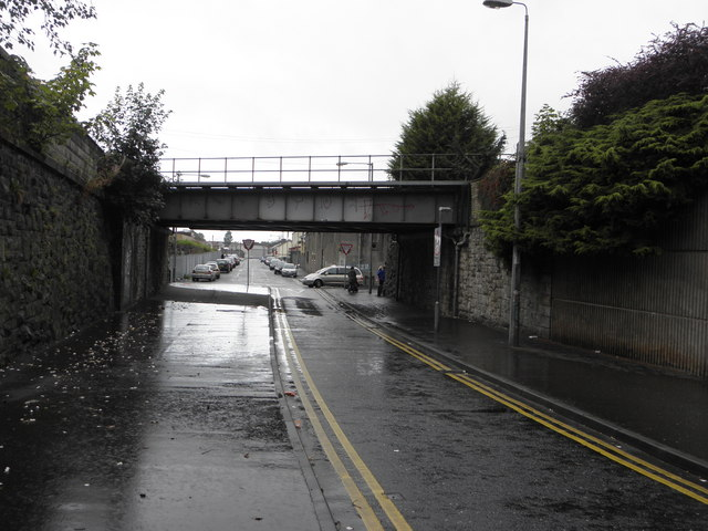 Railway bridge at the Tunnel This bridge carries the Belfast to Dublin line